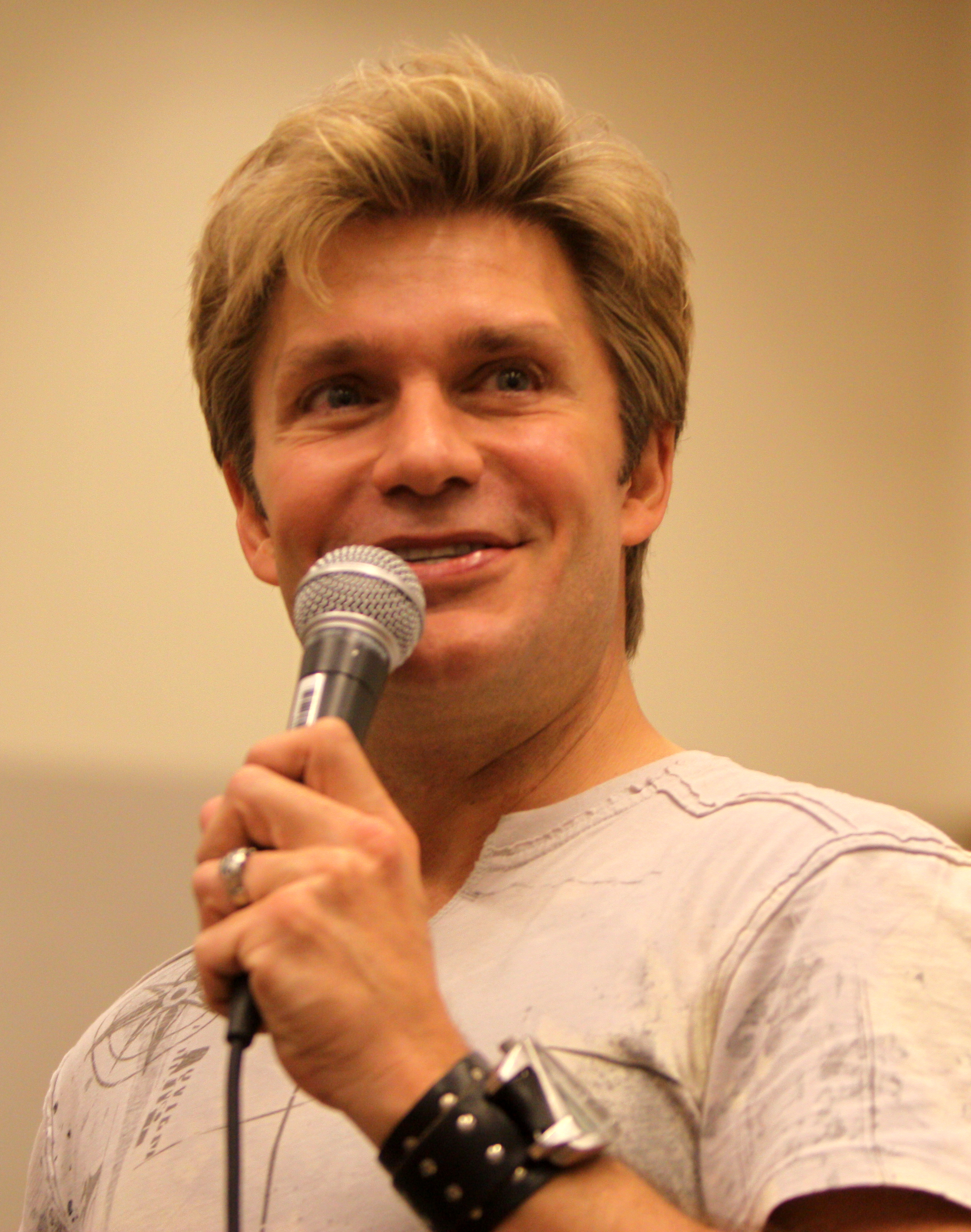 Vic Mignogna at the 2012 Phoenix Comicon in Phoenix, Arizona.